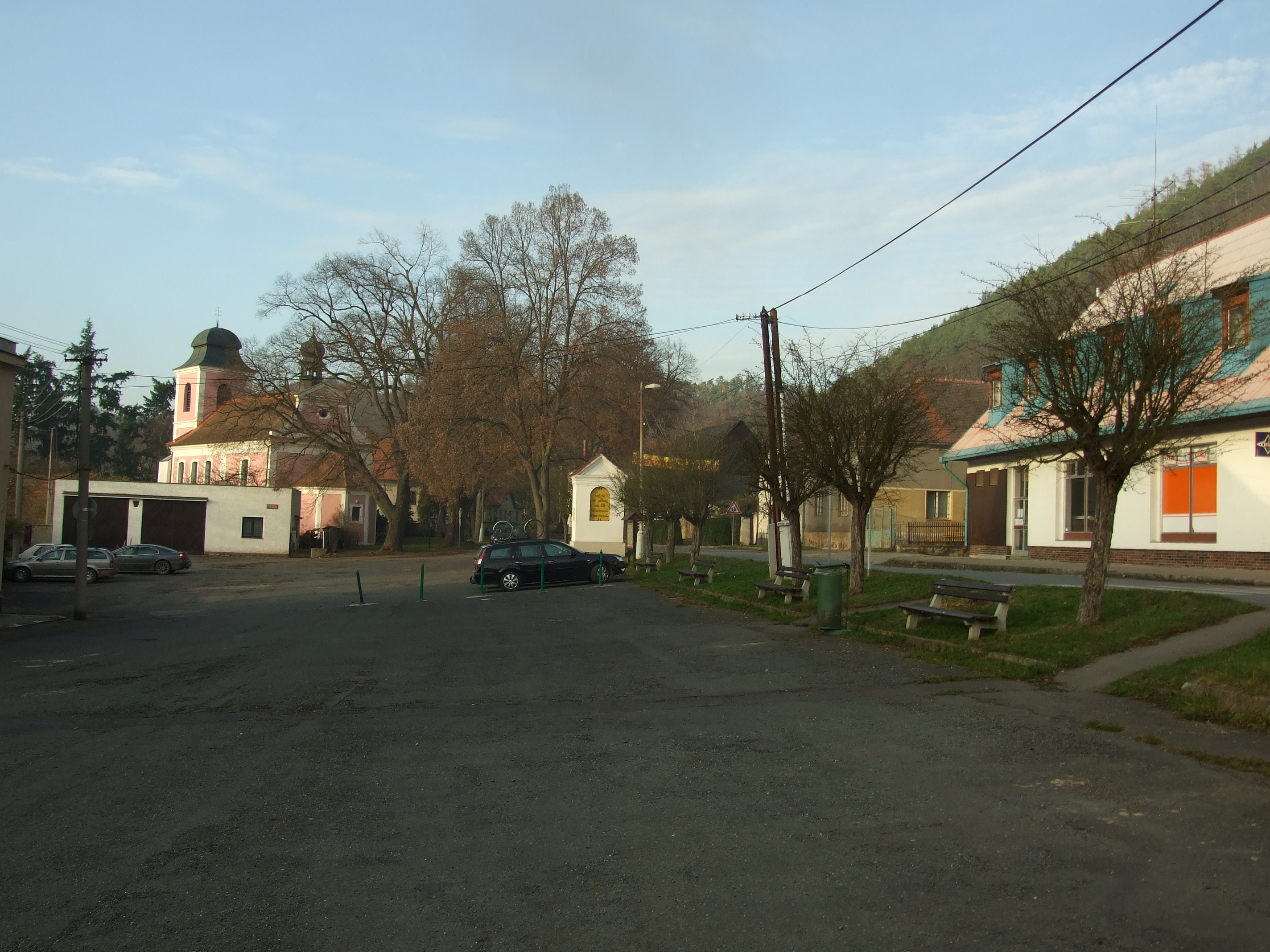 The town of Zbečno, Central Bohemian Region CZhelp